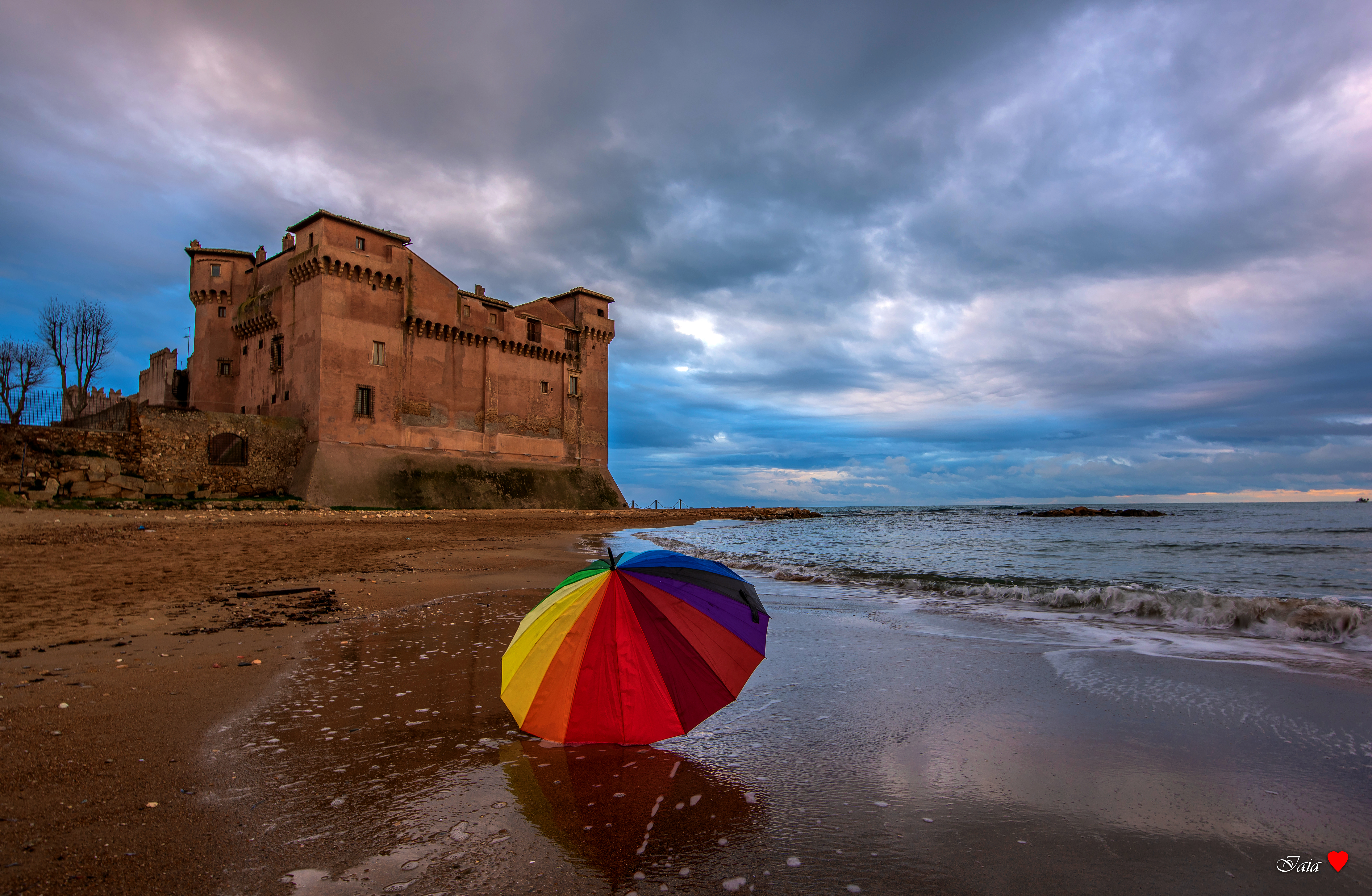 A view of Santa Severa Castle